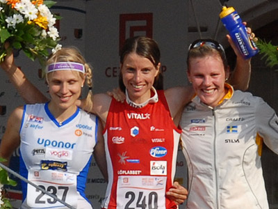 Podium sprint women, World Championships Orienteering 2008: Minna Kauppi, Finland (2nd), Anne Margrethe Hausken, Norway (1st), Helena Jansson, Sweden (3rd)